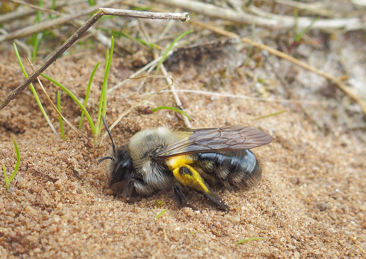 Grey-backed mining bee (Andrena vaga) in The Netherlands